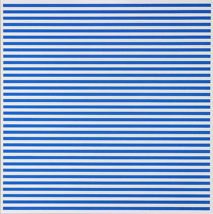 Album de 10 sérigraphies sur 10 ans. Groninger Museum identifier : 1980.0253.